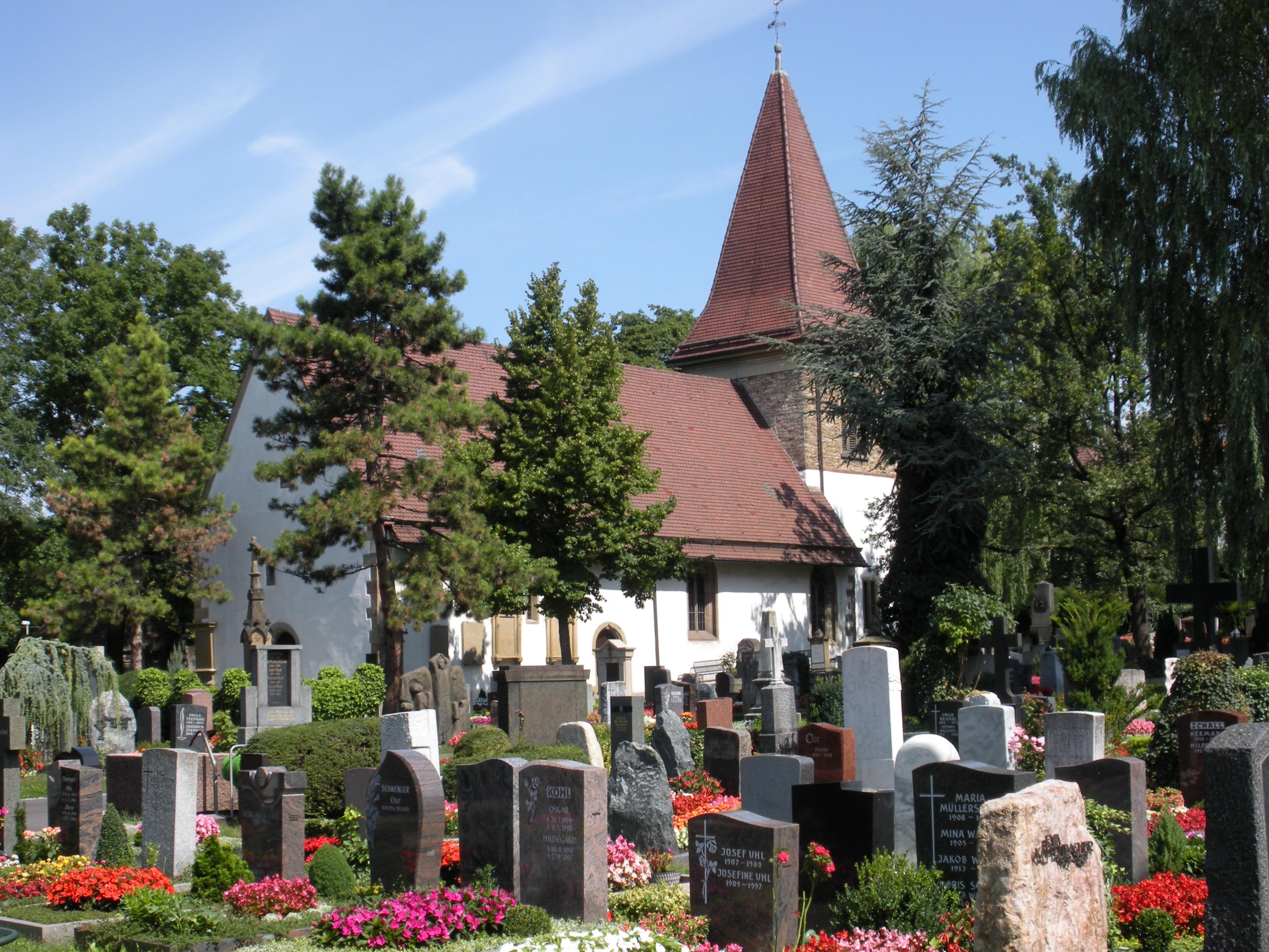 Uff-Church (Uff-Kirche) in Stuttgart-Bad Cannstatt